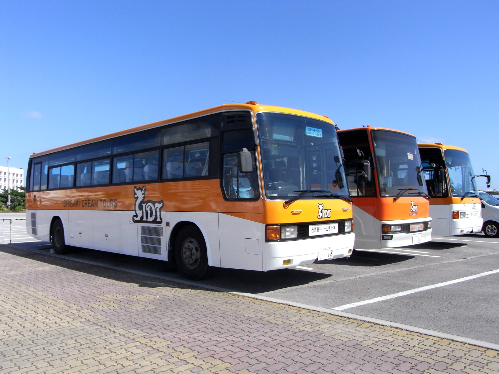 Buses of Ishigaki Dreams Tours (Ishigaki Island, Okinawa, Japan